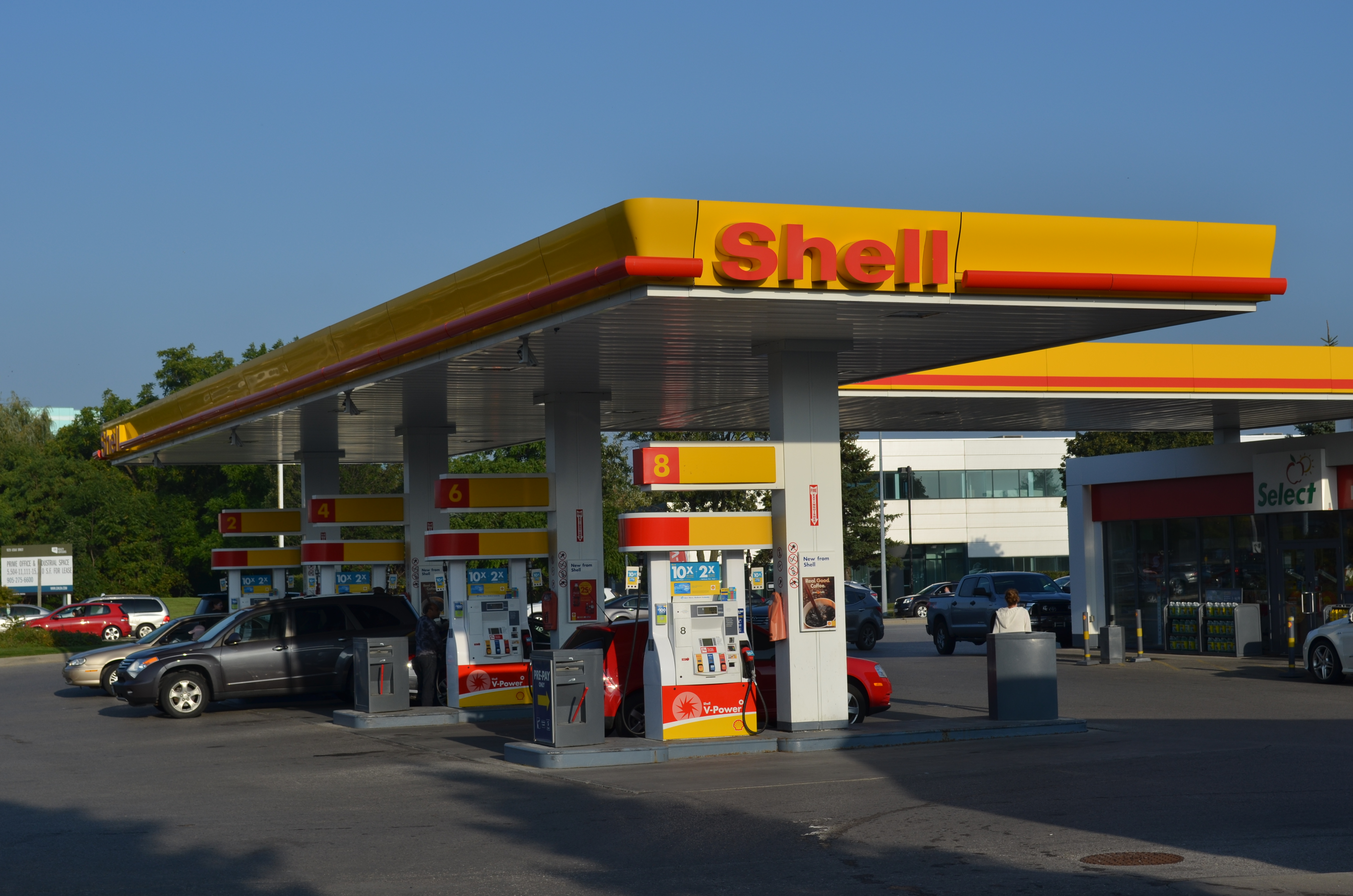 Shell Station in Ontario, Canada